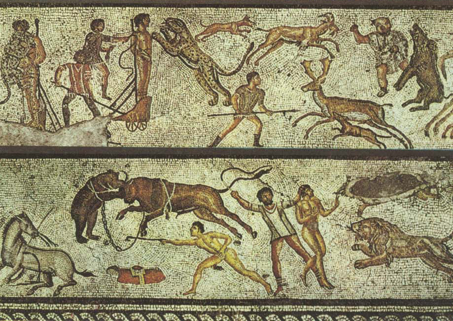 Mosaic showing Roman entertainments from the 1st century. Jamahiriya Museum, Tripoli, Libya. From Dar Buc Ammera villa (Zliten).